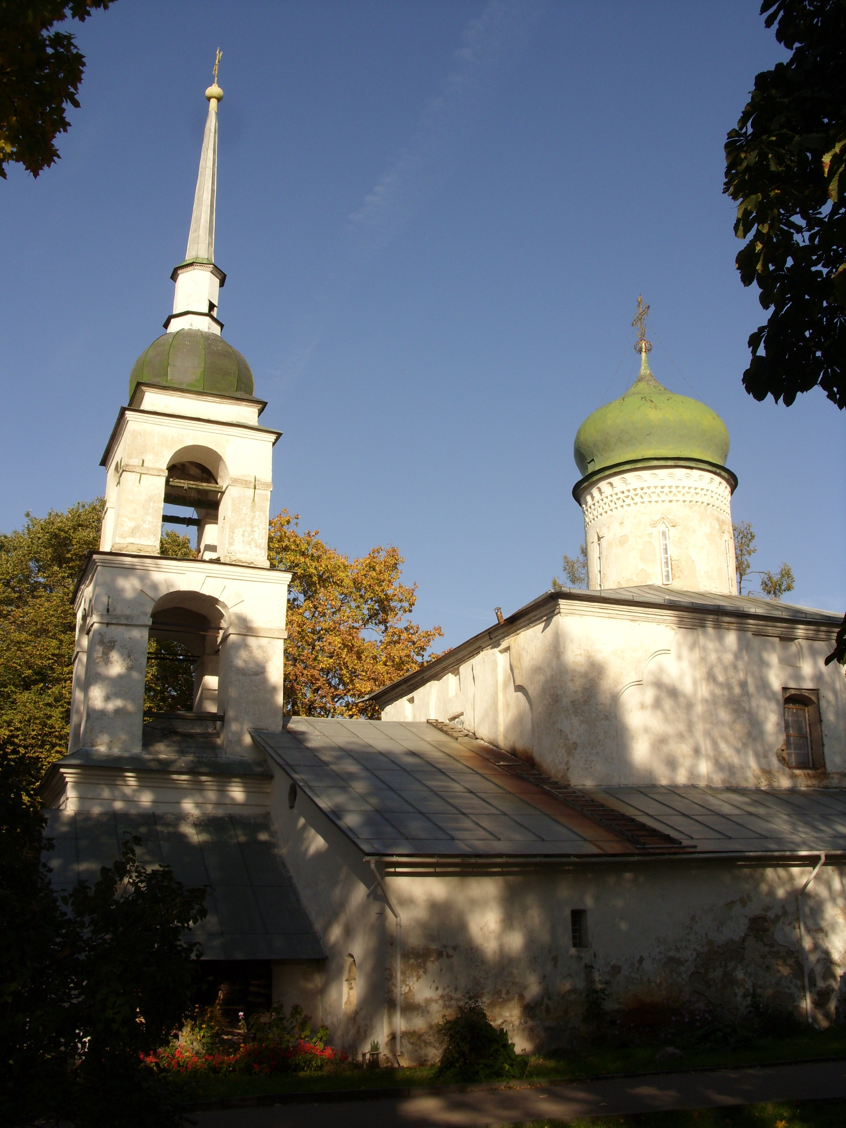 Pskov Anastasii Rimljanki